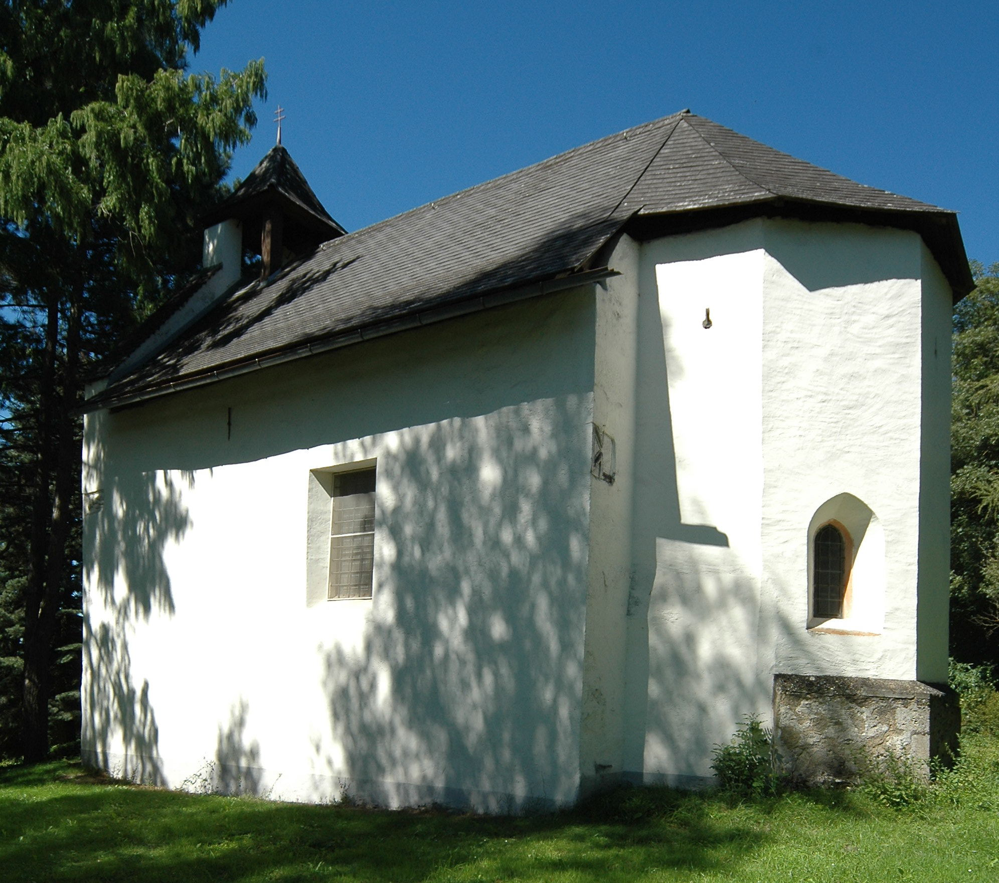 Austria , EU